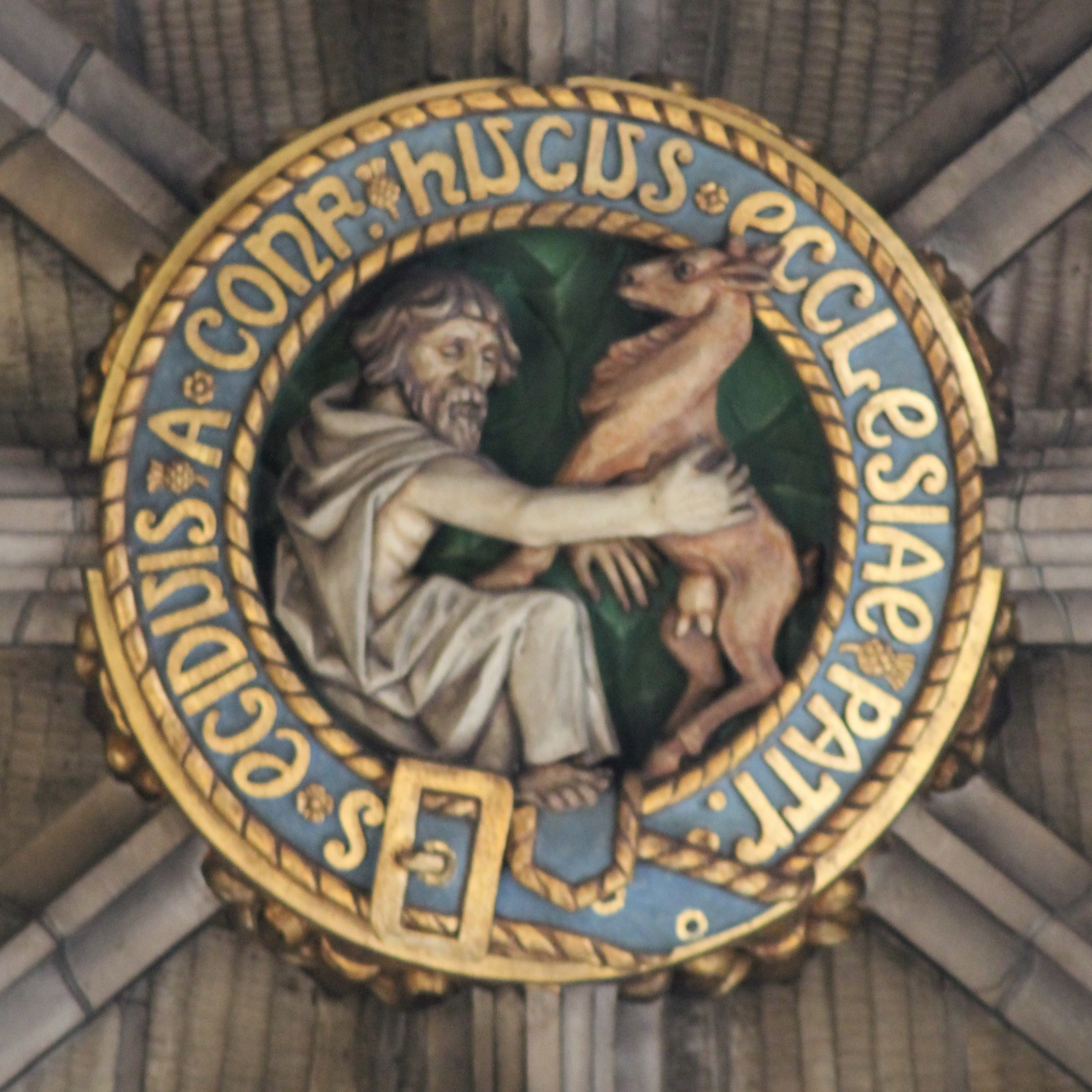 A boss in the ceiling of the Thistle Chapel at St Giles' Cathedral Edinburgh. Saint Giles' is the patron saint of Edinburgh and the city's ancient parish church is dedicated to him. The Thistle Chapel was designed Robert Lorimer and built between 1909 and 1911. It is the spiritual home of the Order of the Thistle: Scotland's highest chivalric order. The stone carving is by Joseph Hayes using designs by Louis Deuchars.